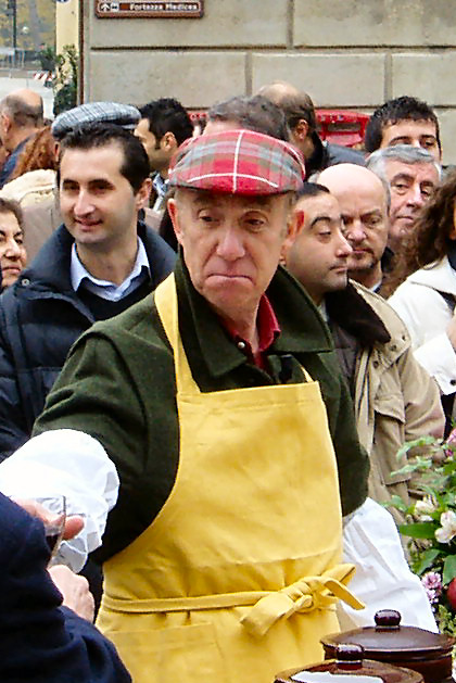 Davide Mengacci, Italian television personality, in Arezzo in 2004